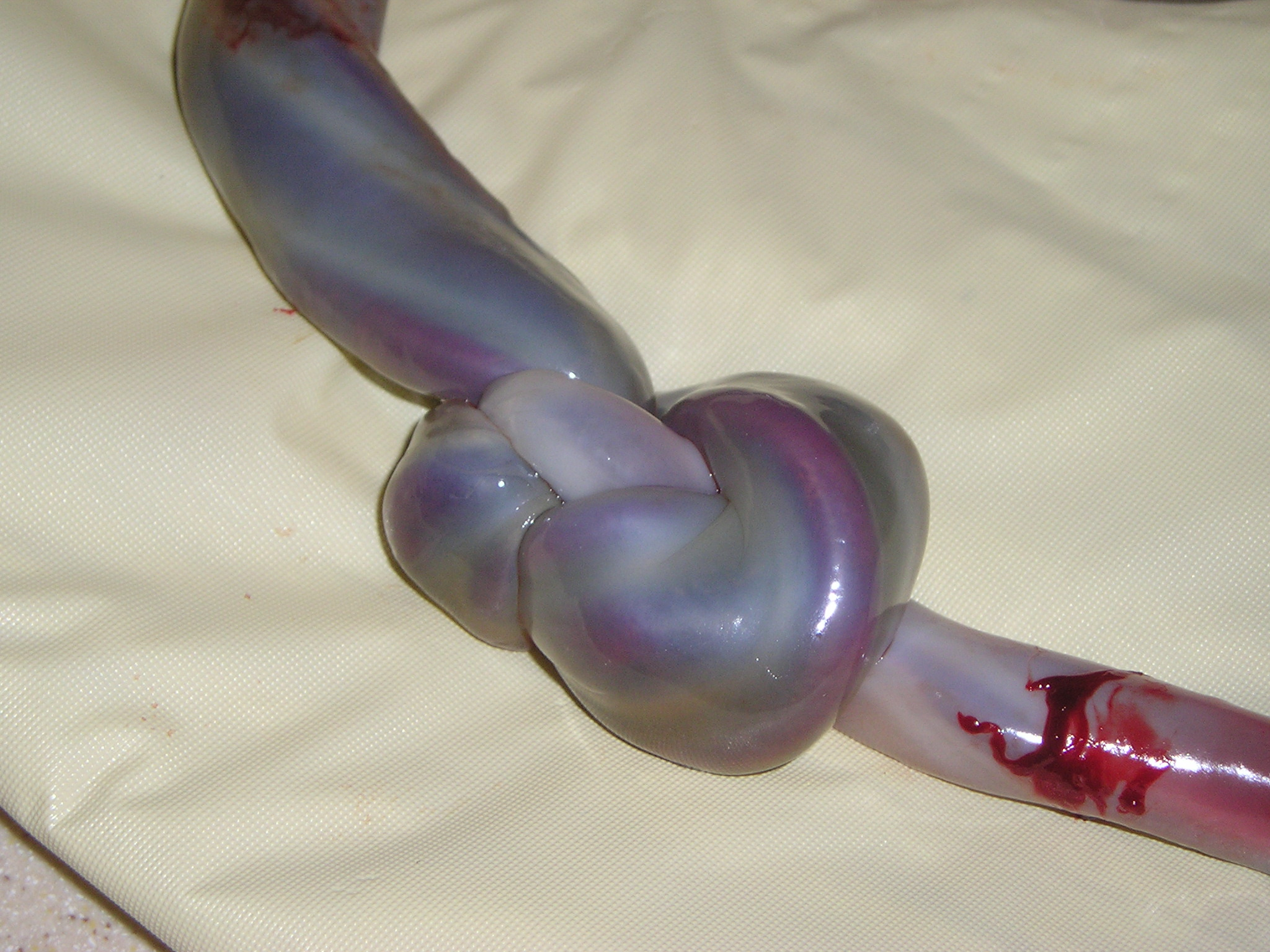 Knotted umbilical cord